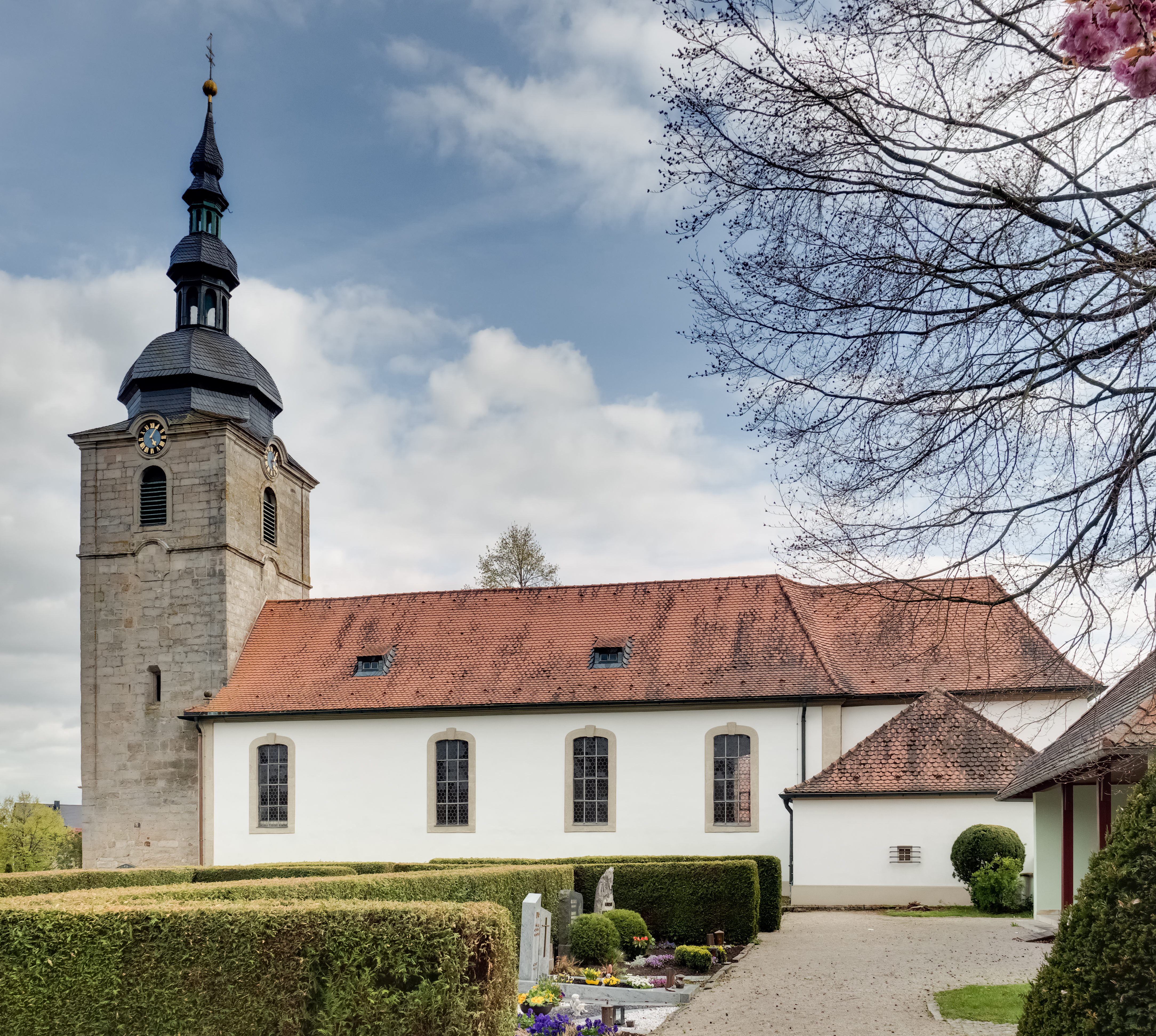 Catholic parish church of St. Jacobus Maior in Etzelskirchen